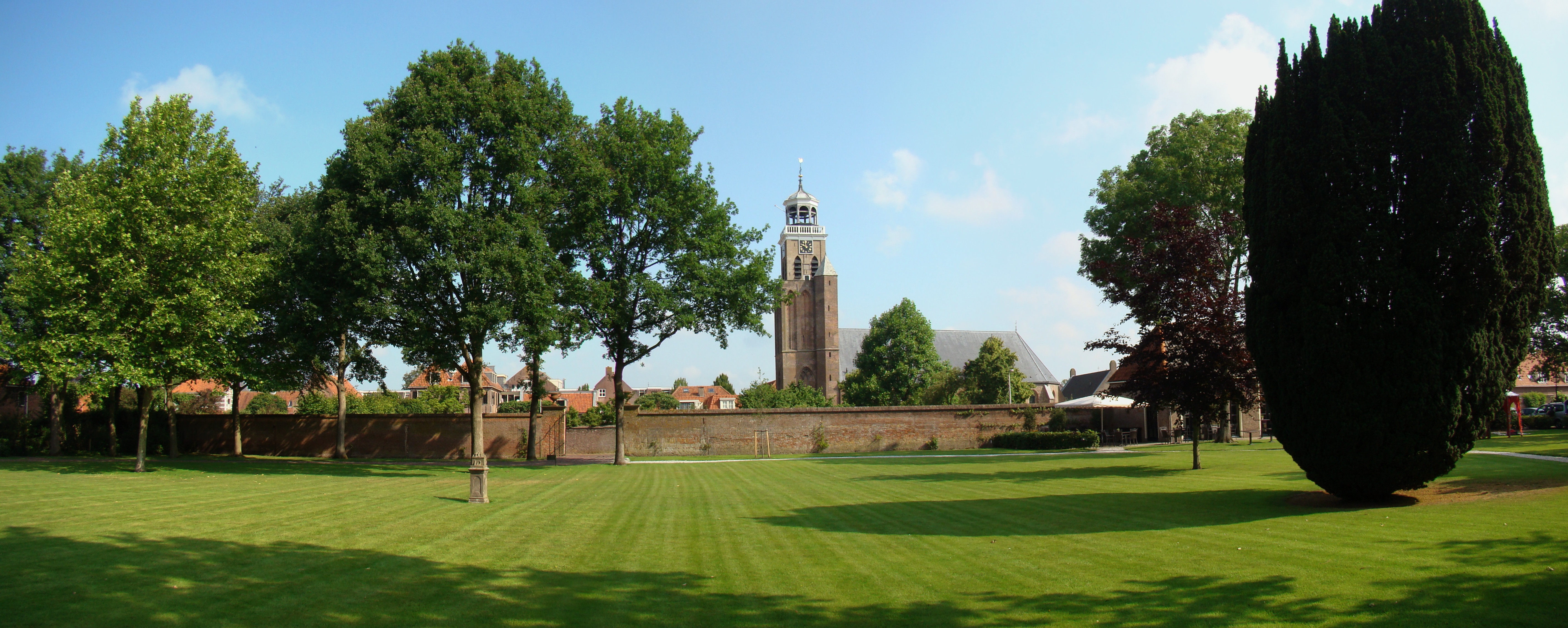 Impressions of Vollenhove